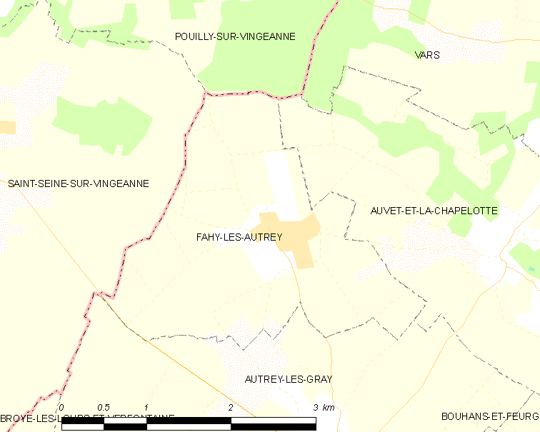 Map of French municipality